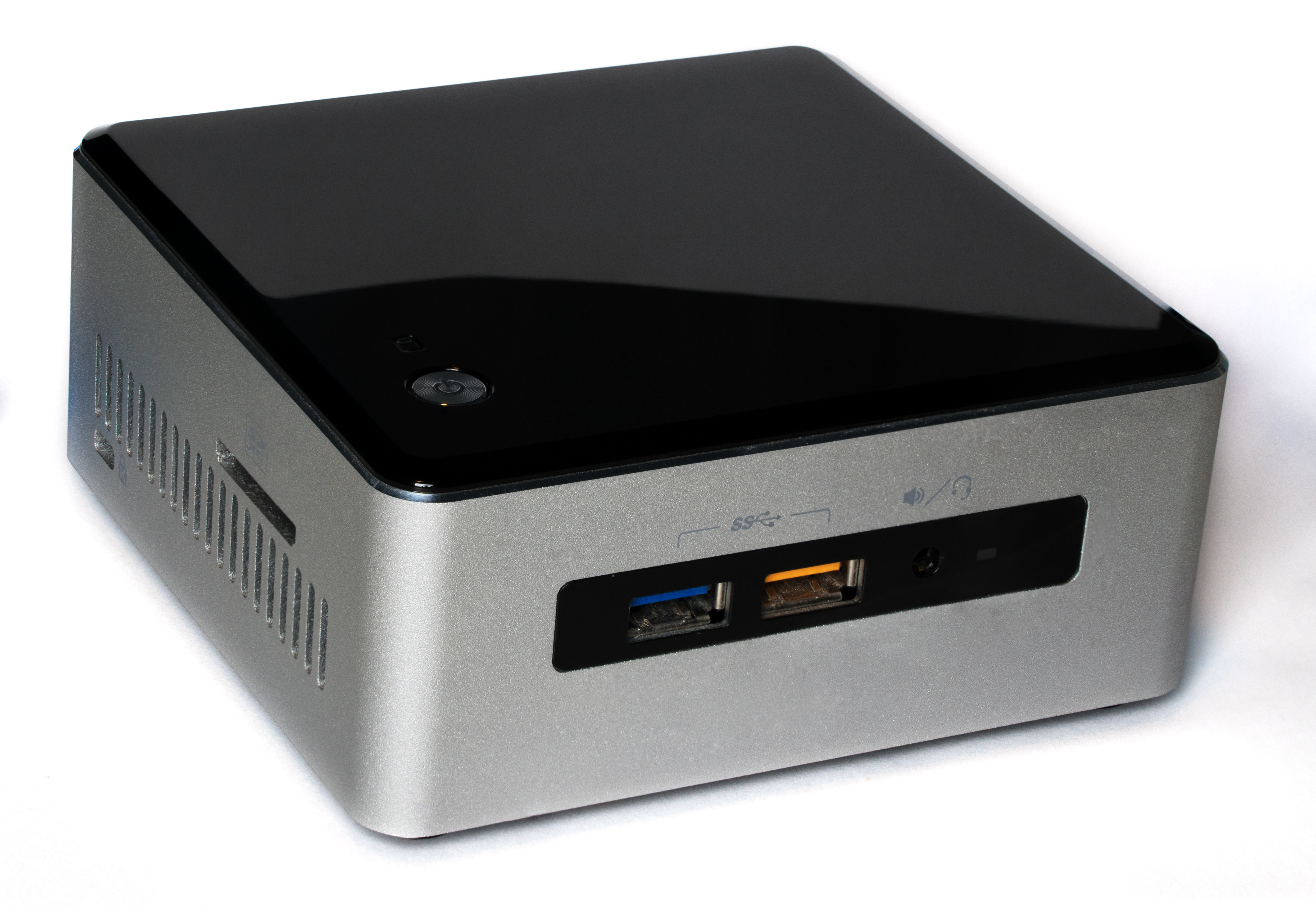 Intel NUC of 6th gen. Model: NUC6i3SYH